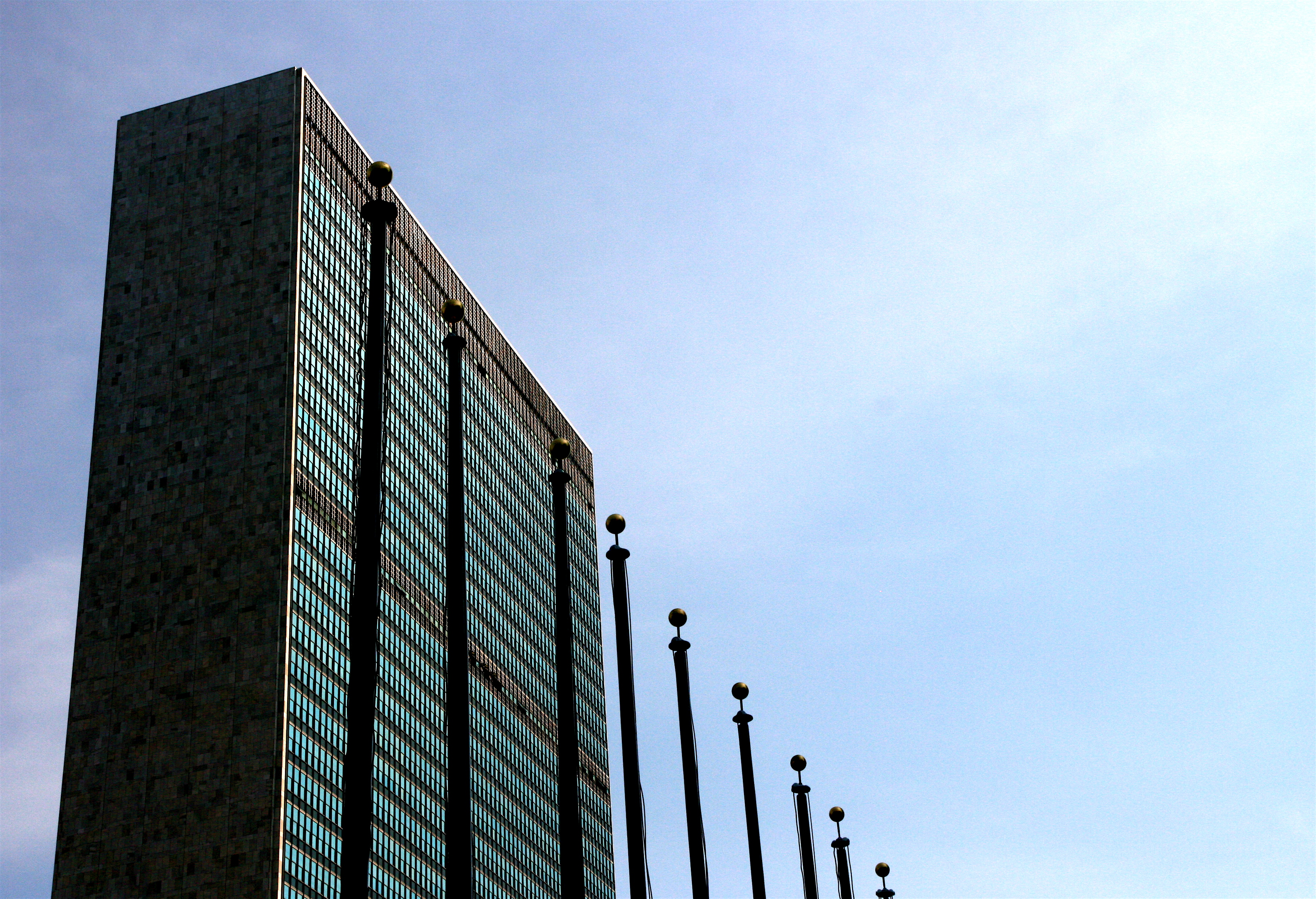 Flagpoles and the UN Secretariat building in New York